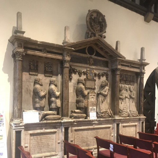 The Cooke Memorial at the Church of St Edward the Confessor, Romford. Arms of Cooke of Giddea Hall, Essex: Or, a chevron compony gules and azure between three cinquefoils of the second. Crest — A unicorn's head or, between two wings endorsed azure )Burke's General Armory, 1884[1]